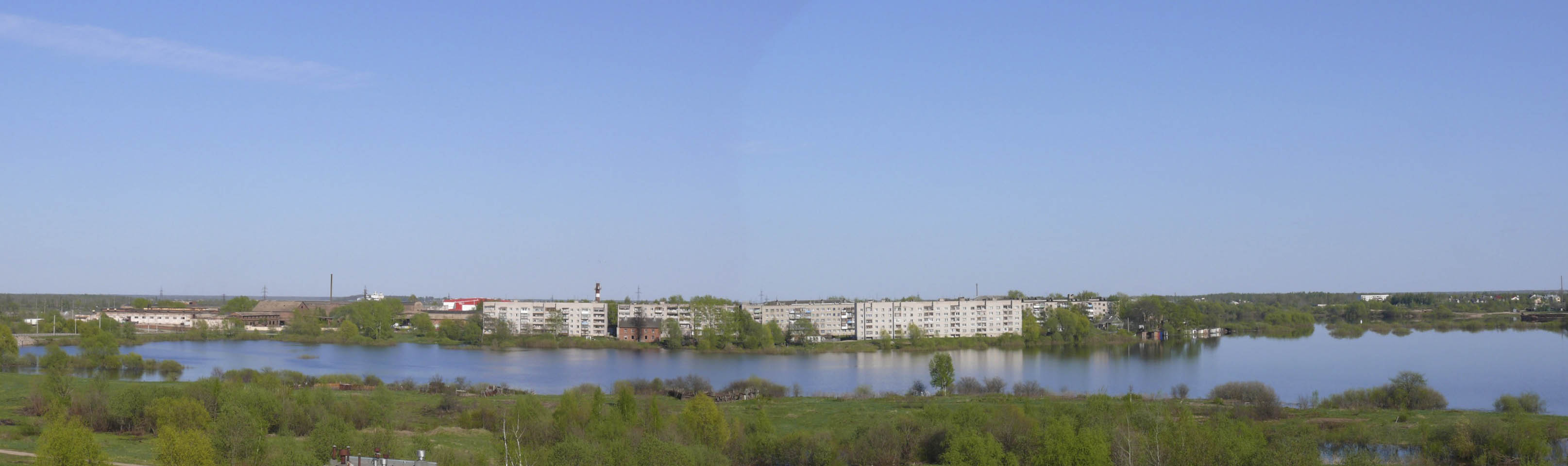 Pitba river in Volkhovsky village. Novgorod, Russia